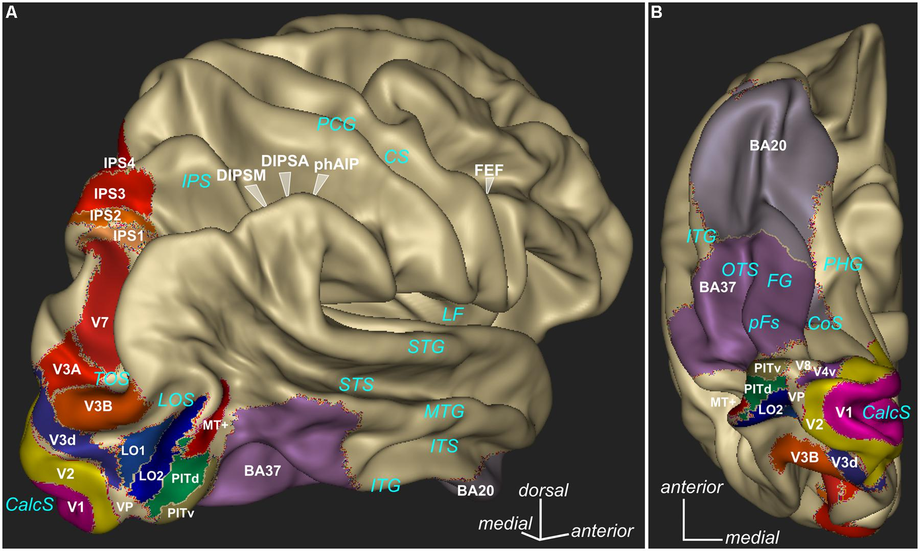 Parcellation of different cortical regions involved in visual processing. Some of these regions are particularly involved in binocular vision and some regions are known to show deficits in amblyopes under diverse visual stimulation. Lateral view (A) and ventral view (B) are presented. The 3D rendering (Anatomist, represents the cortical surface of the Conte69 human surface-based atlas (Van Essen et al., 2012). V1, V2, MT+ as defined by (Fischl et al., 2008), V3A, V3B, V4v, V7, IPS1/2/3/4 as defined by (Swisher et al., 2007), V3d, LO1, LO2, PITd, PITv, as defined by (Kolster et al., 2010), occipitotemporal area BA37, inferior temporal area BA20 available in Caret software ( Van Essen et al., 2001). CalcS, calcarine sulcus; LOS, lateral occipital sulcus; TOS, transverse occipital sulcus; ITG, inferior temporal gyrus; ITS, inferior temporal sulcus; MTG, middle temporal gyrus; STS, superior temporal sulcus; STG, superior temporal gyrus; LF, lateral fissure; OTS, occipitotemporal sulcus; CoS, collateral sulcus; PHG, parahippocampal gyrus; PCG, postcentral gyrus; CS, central sulcus.